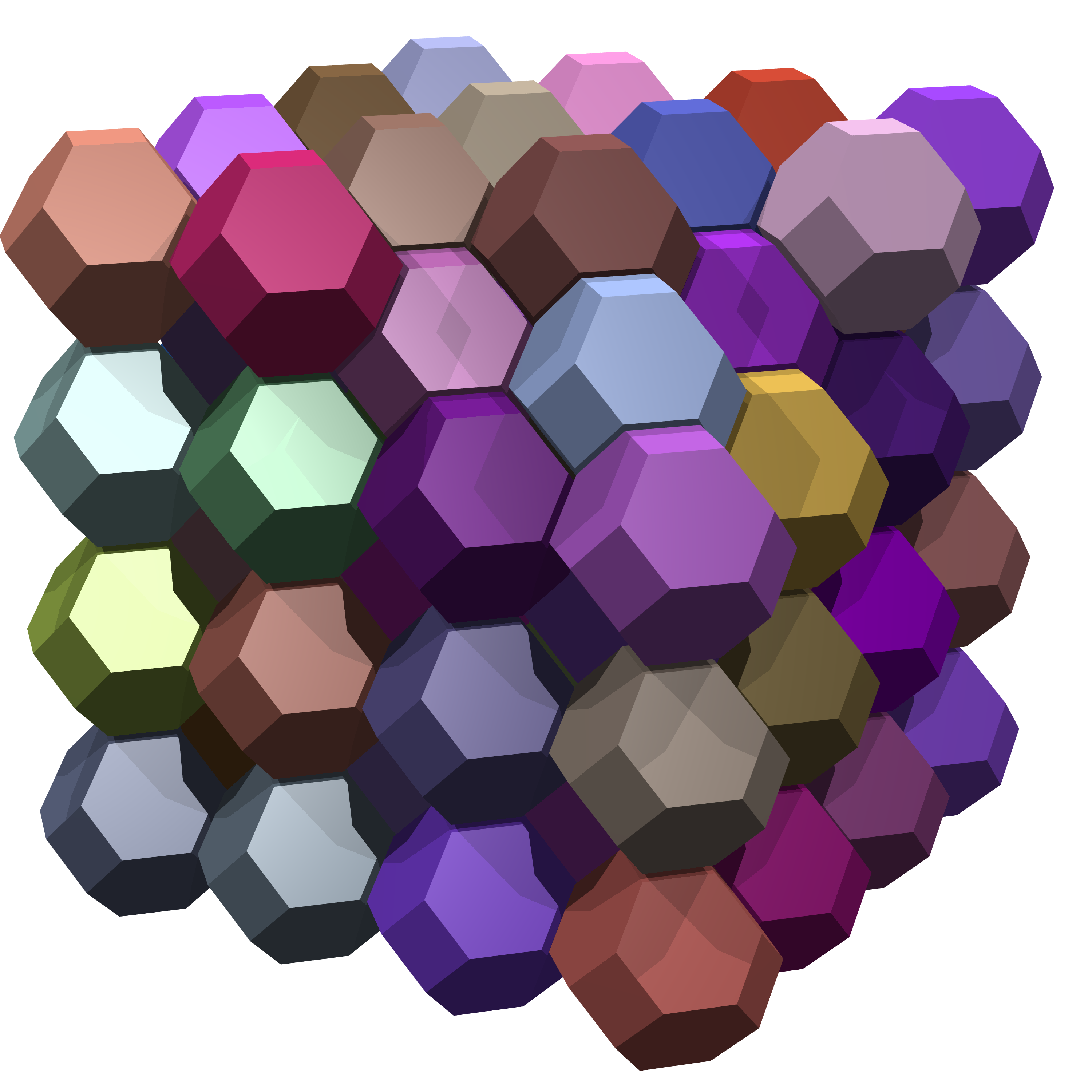 Tesselation of space using truncated octahedra